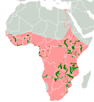 Range of Hippopotamus: Present Former